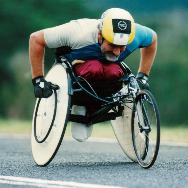 Paralympian Mike Nugent racing in his wheelchair.